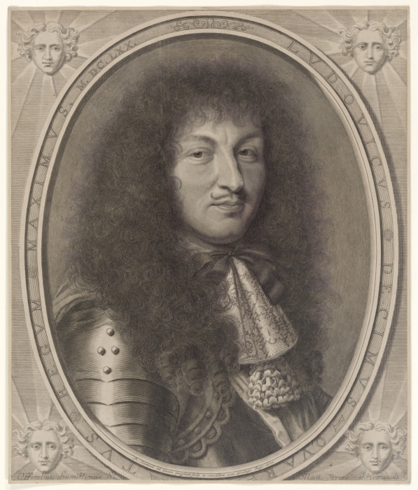 "Louis XIV," King of France, by the French engraver and artist Robert Nanteuil. Engraving, 17 15/16 in. x 15 3/16 in. Yale University Art Gallery, gift of Samuel Duryee, B.A. 1917. Courtesy of Yale University, New Haven, Conn.